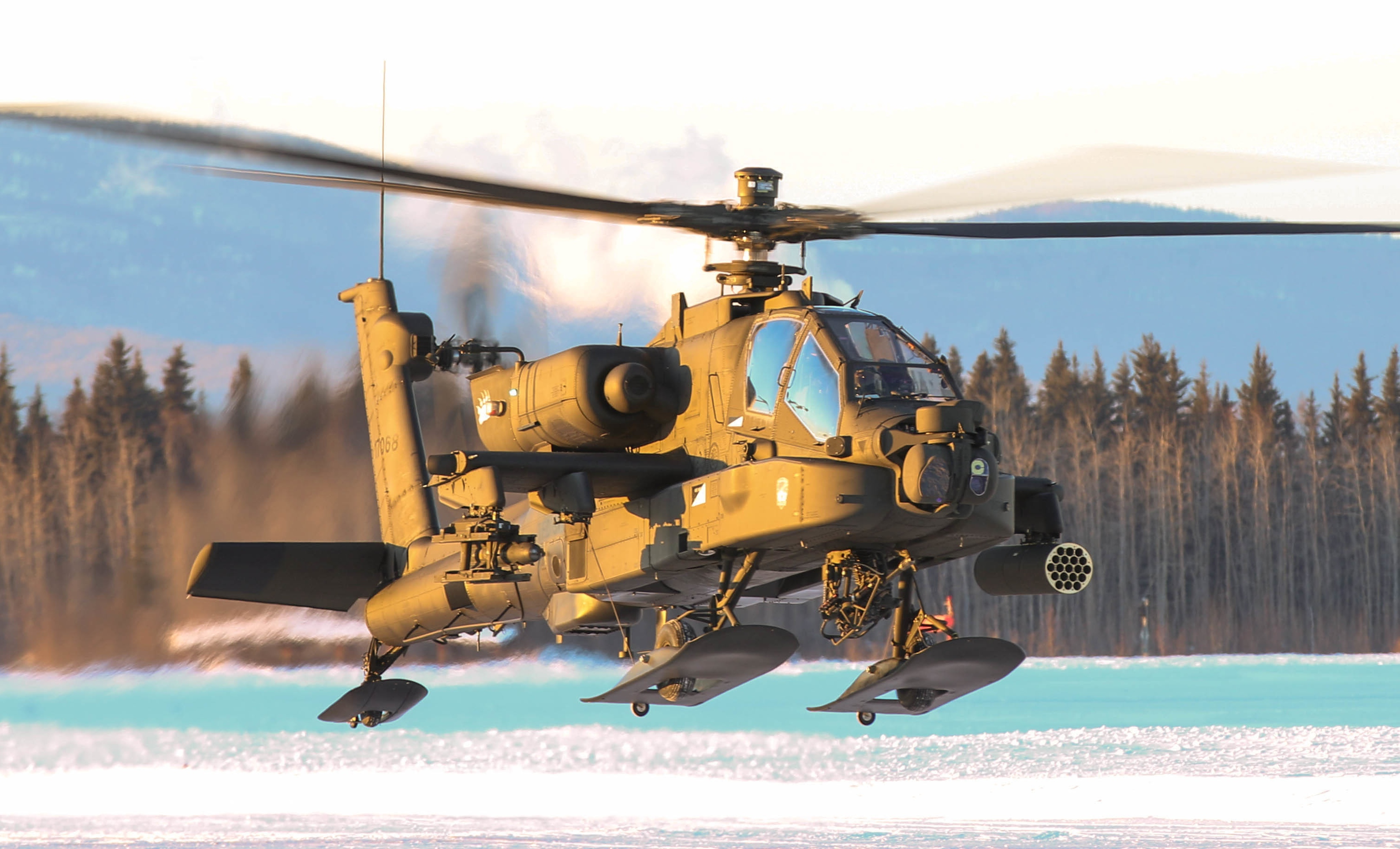 AH-64 Apache aviators from 1st Battalion, 25th Attack Reconnaissance Battalion, conduct pilot certification training Jan. 20, 2016, at Fort Wainwright, Alaska. The 1-25th ARB is in the process of certifying its aviators to validate the unit for potential future deployments in the Pacific and across the world.